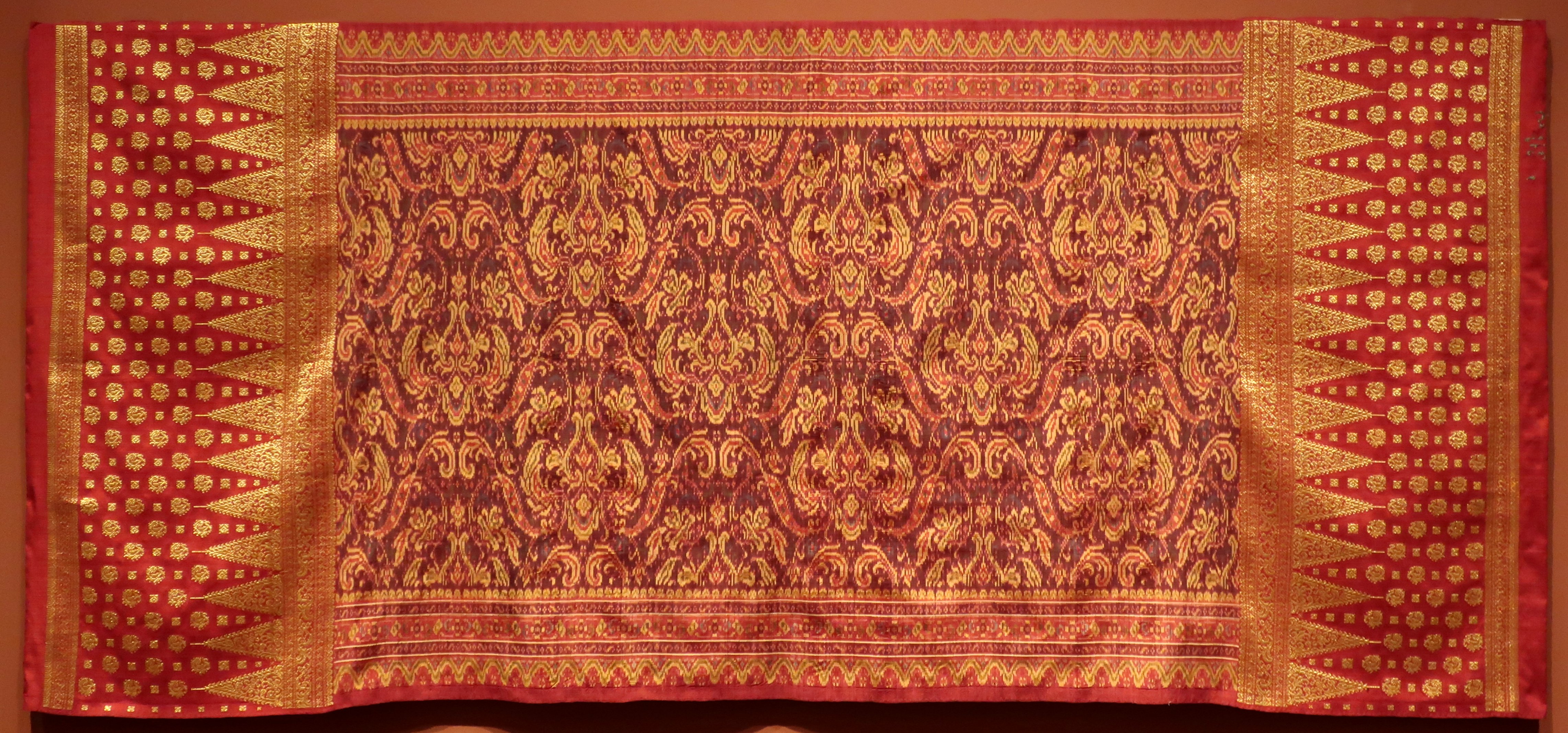 Selendang (shawl) from Indonesia, Sumatra, Palembang, late 19th century, silk, gilt thread, weft ikat, plain weave with supplementary weft inlay, Honolulu Museum of Art, accession 9955.1